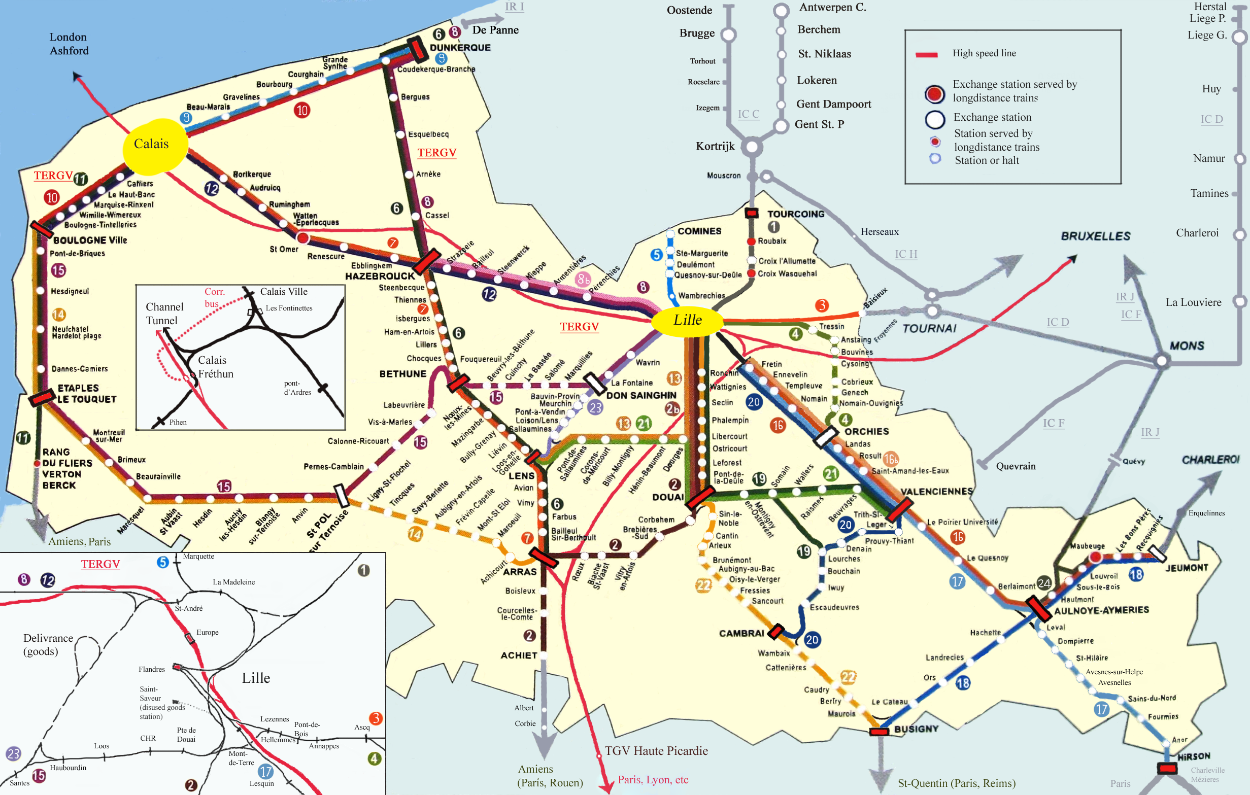 TER map off Nord-Pas-de-Calais region, original picture out off TER guide, than extensively adapted.